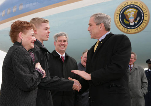 President George W. Bush greets Greece Athena High School senior, Jason McElwain and McElwain's mother, Debbie, upon arriving in Rochester, New York Tuesday, March 14, 2006. After serving as the team's manager McElwain, who is autistic, was called on to play during the team's last game of the season. McElwain became a local hero after he sank six 3-point shots during the last moments of his first ever varsity basketball game.